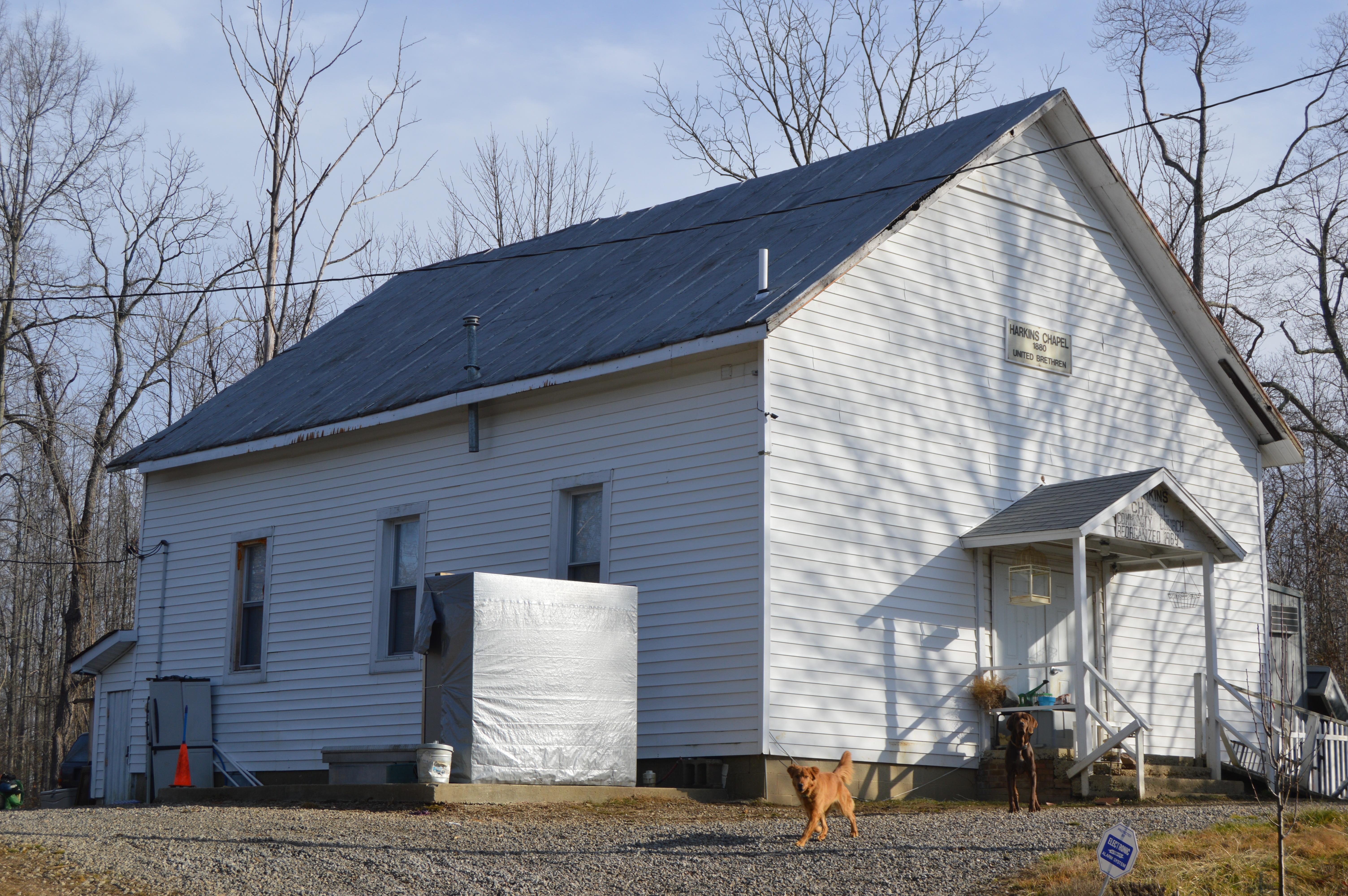 Front and western side of Harkins Chapel United Brethren Church, located on Harkins Chapel Road in far western Knox Township, Vinton County, Ohio, United States.